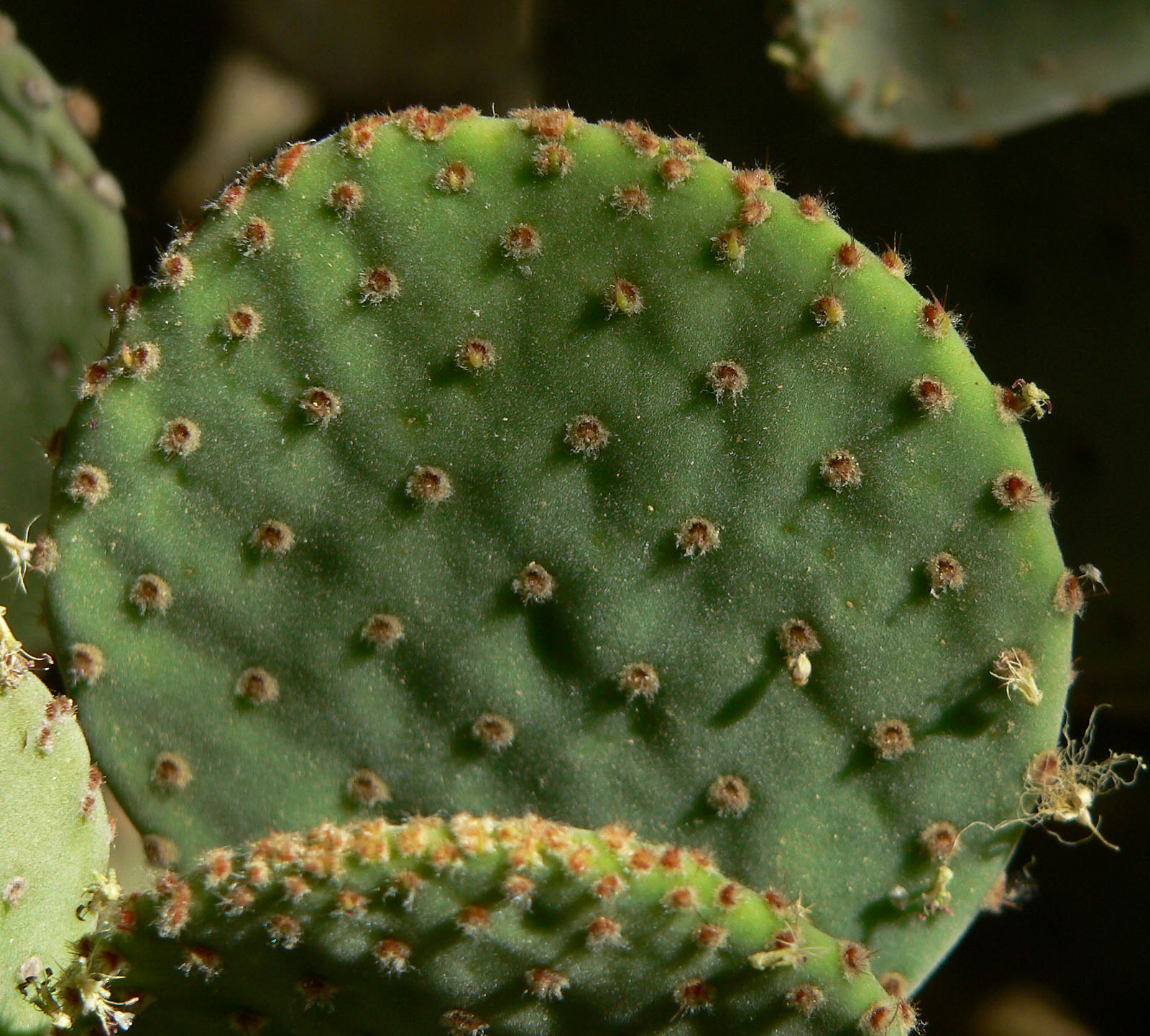 Opuntia rufida at the Ethel M Botanical Cactus Garden, Las Vegas, Nevada